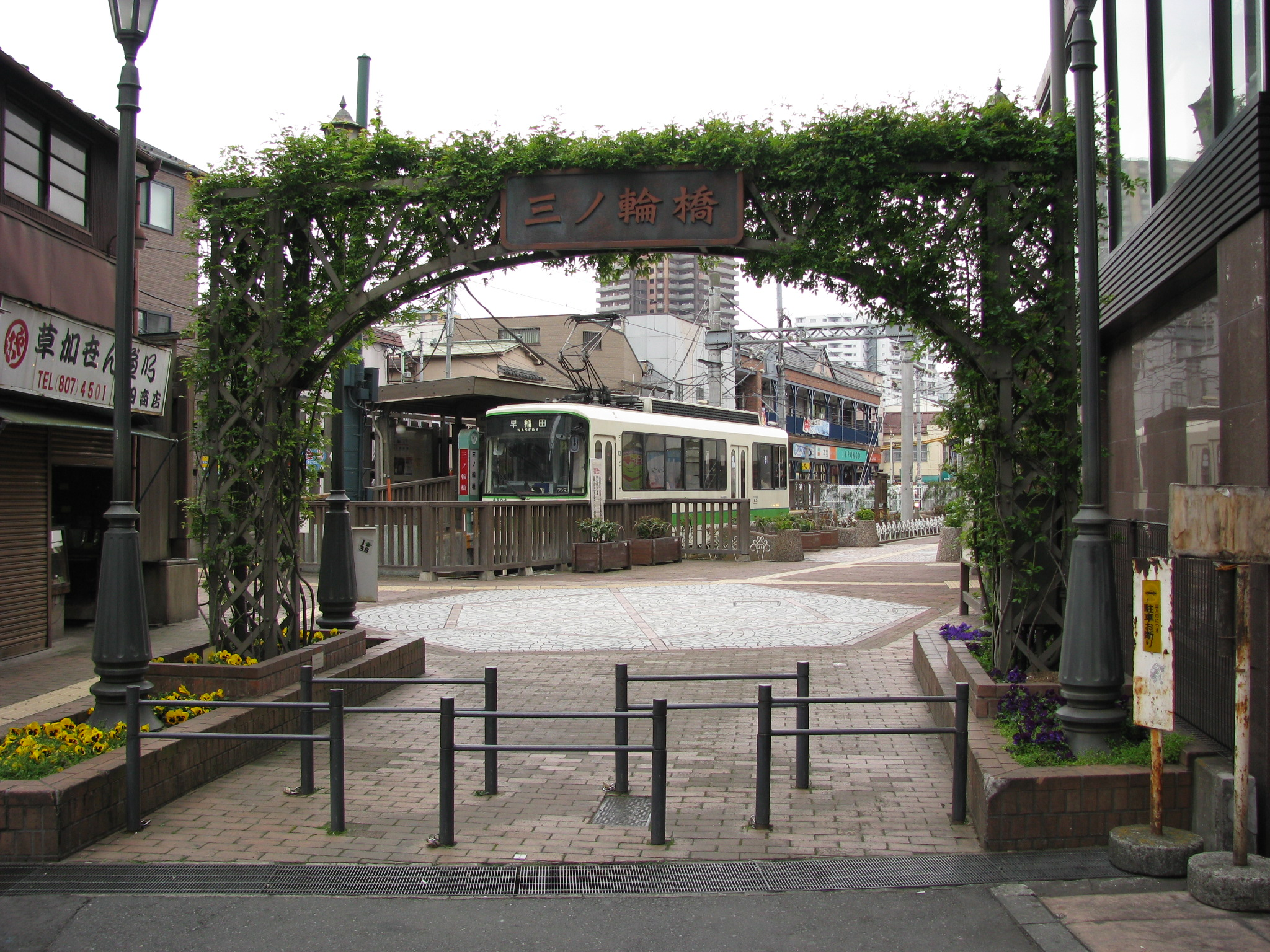 The Minowabashi Station is a station of Toden Arakawa Line, located in Arakawa, Tokyo, Japan.